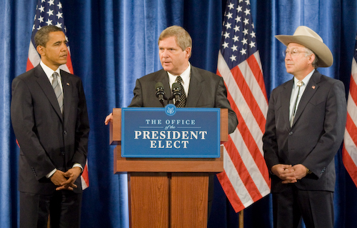 Tom Vilsack after being announced United States Secretary of Agriculture for the Barack Obama transition team